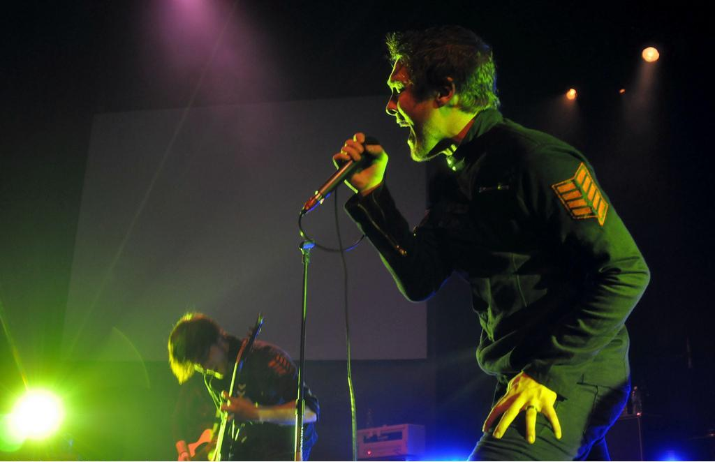 Nine Lashes performing at the Grace Venue in Overland Park, KS in 2011.